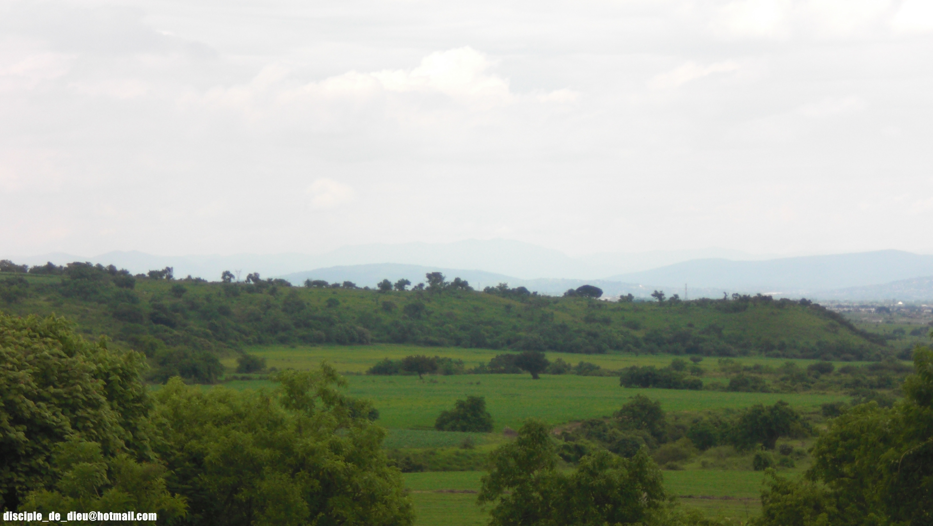 Parte Sur